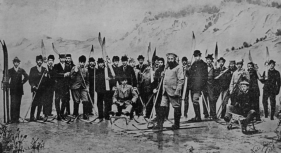 Az első magyar síklub tagjai Kolozsváron